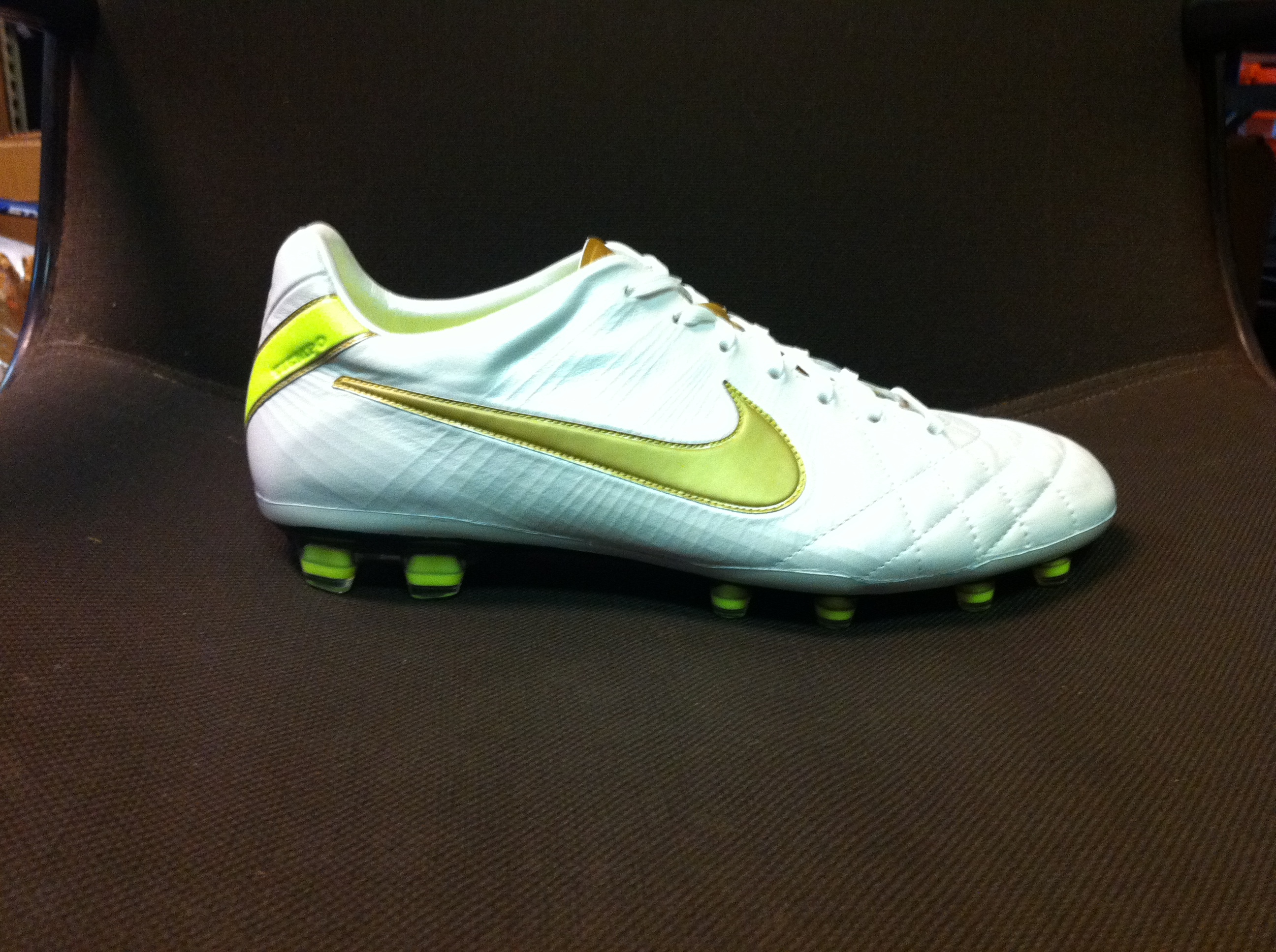 Nike Tiempo Legend IV Elite White/Gold/Volt Colorway